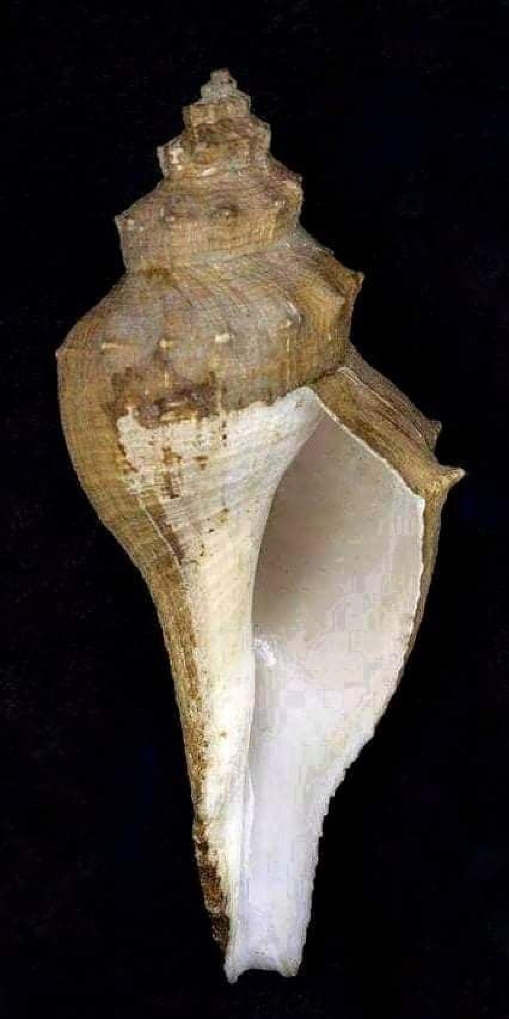 The seashell of the species Hemifusus colosseus (Lamarck, 1816)[1]; from S.E. Asia; Taiwan. Underside, with periostracum. ABBOTT, R. Tucker; DANCE, S. Peter (1982). Compendium of Seashells. A color Guide to More than 4.200 of the World's Marine Shells. New York: E. P. Dutton. p. 176. 412 pp. ISBN 0-525-93269-0